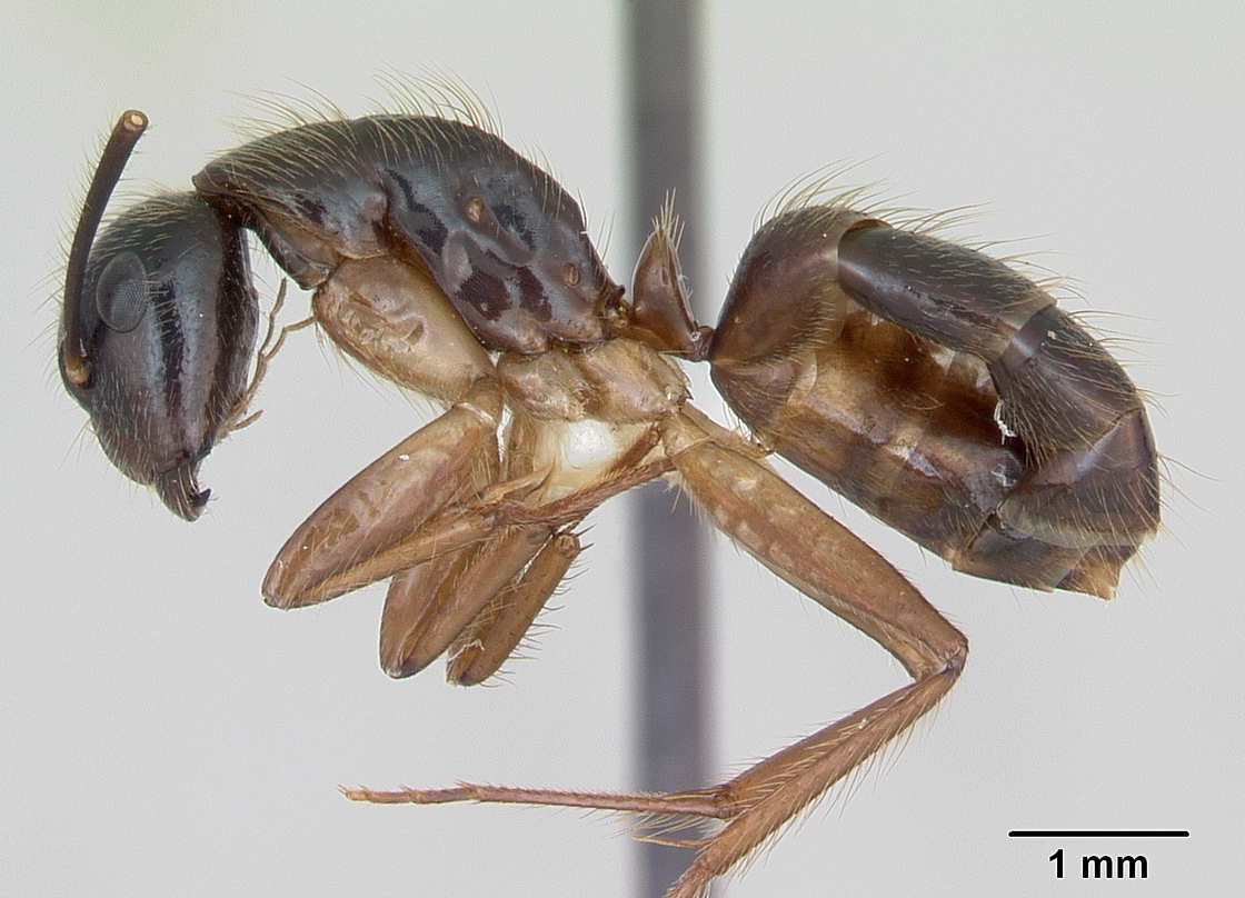 Profile view of ant Camponotus atriceps specimen casent0173392.